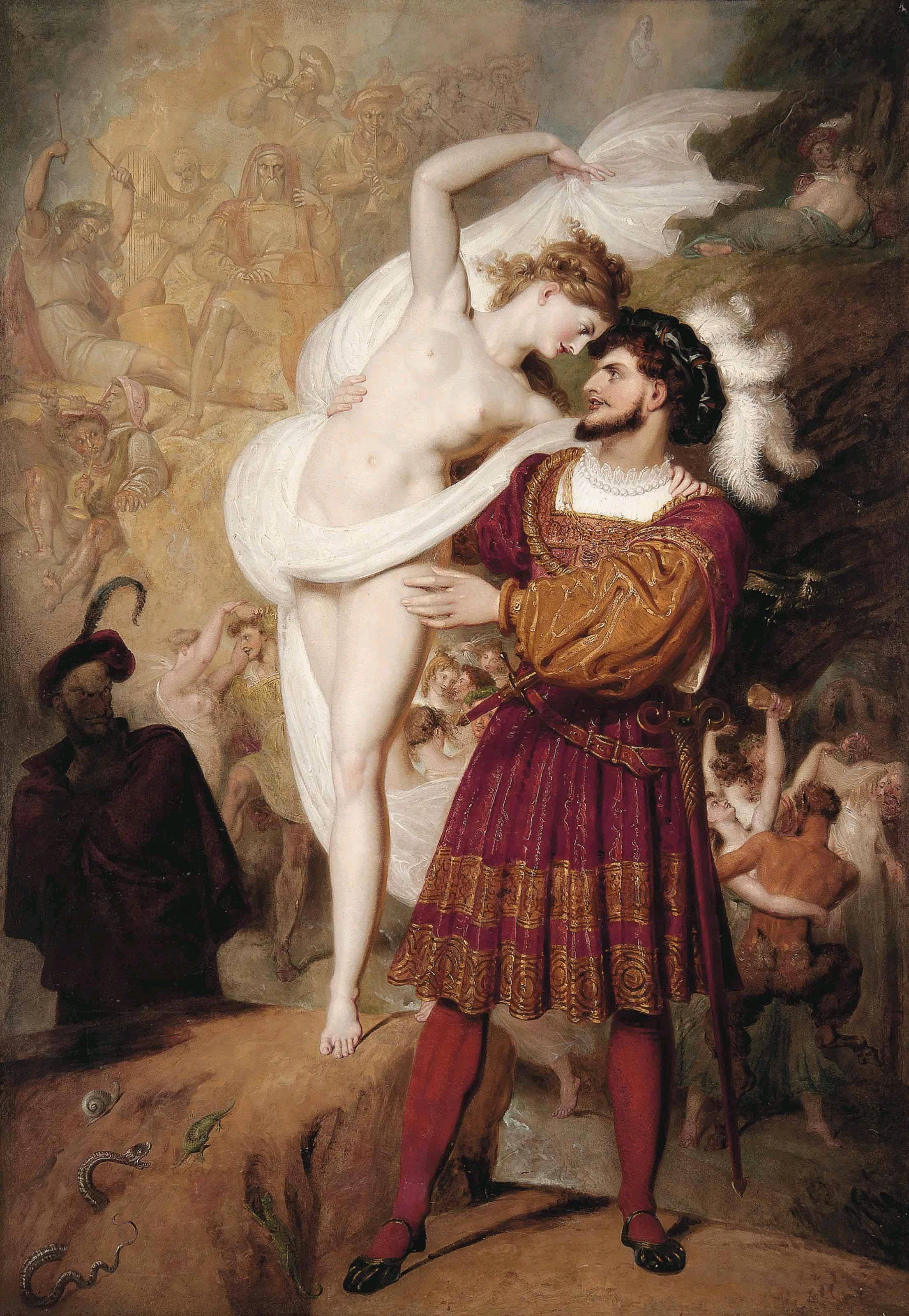 Faust preparing to dance with the young witch at the festival of the Wizards and Witches in the Hartz Mountains